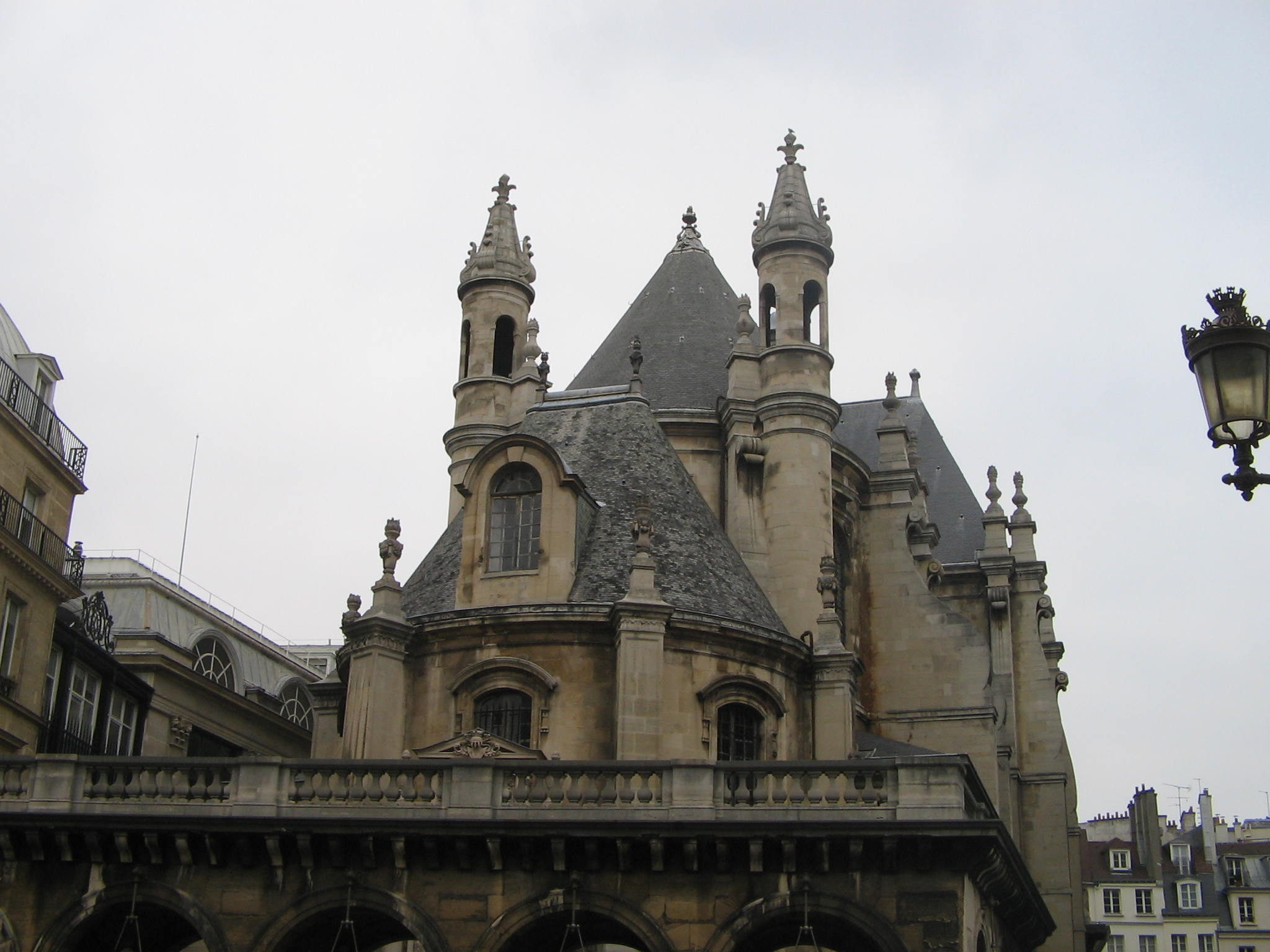 The Oratoire du Louvre, a protestant temple facing the Louvre - rue de Rivoli, 75001 Paris.